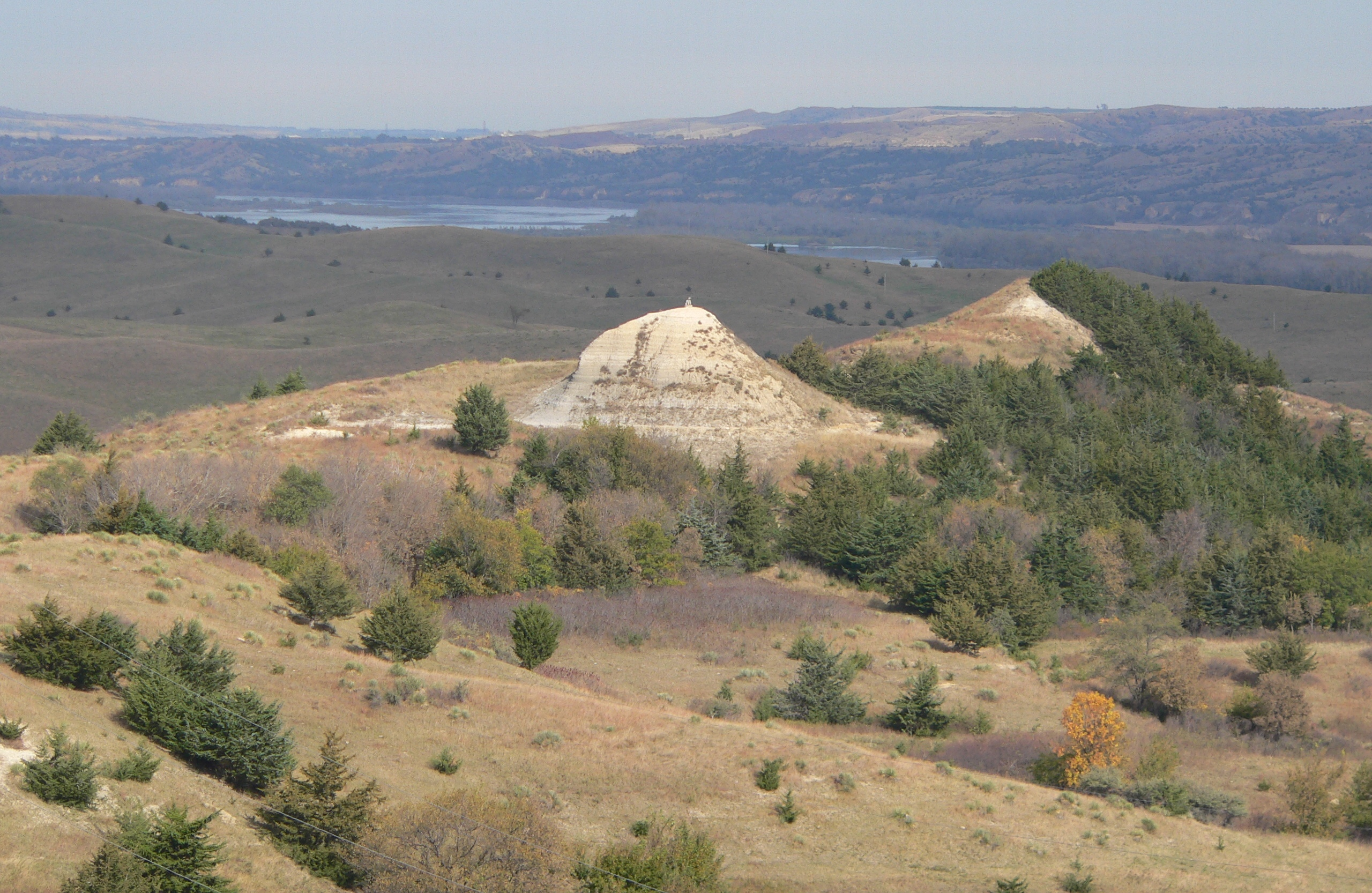 The Tower, a landform north of Lynch in Boyd County, Nebraska; seen from an overlook to the south. It is listed in the National Register of Historic Places because of its association with the Lewis and Clark Expedition. The Missouri River is visible in the left background.